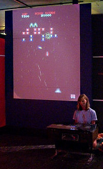 This is how Galaga is meant to be played, on a screen larger than me.